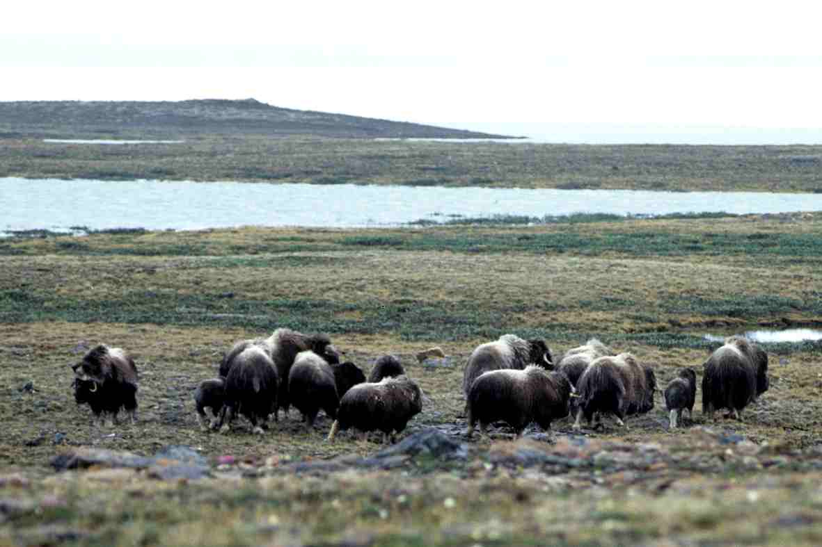 Muskoxen on Victoria Island, Nunavut Territory, Canada